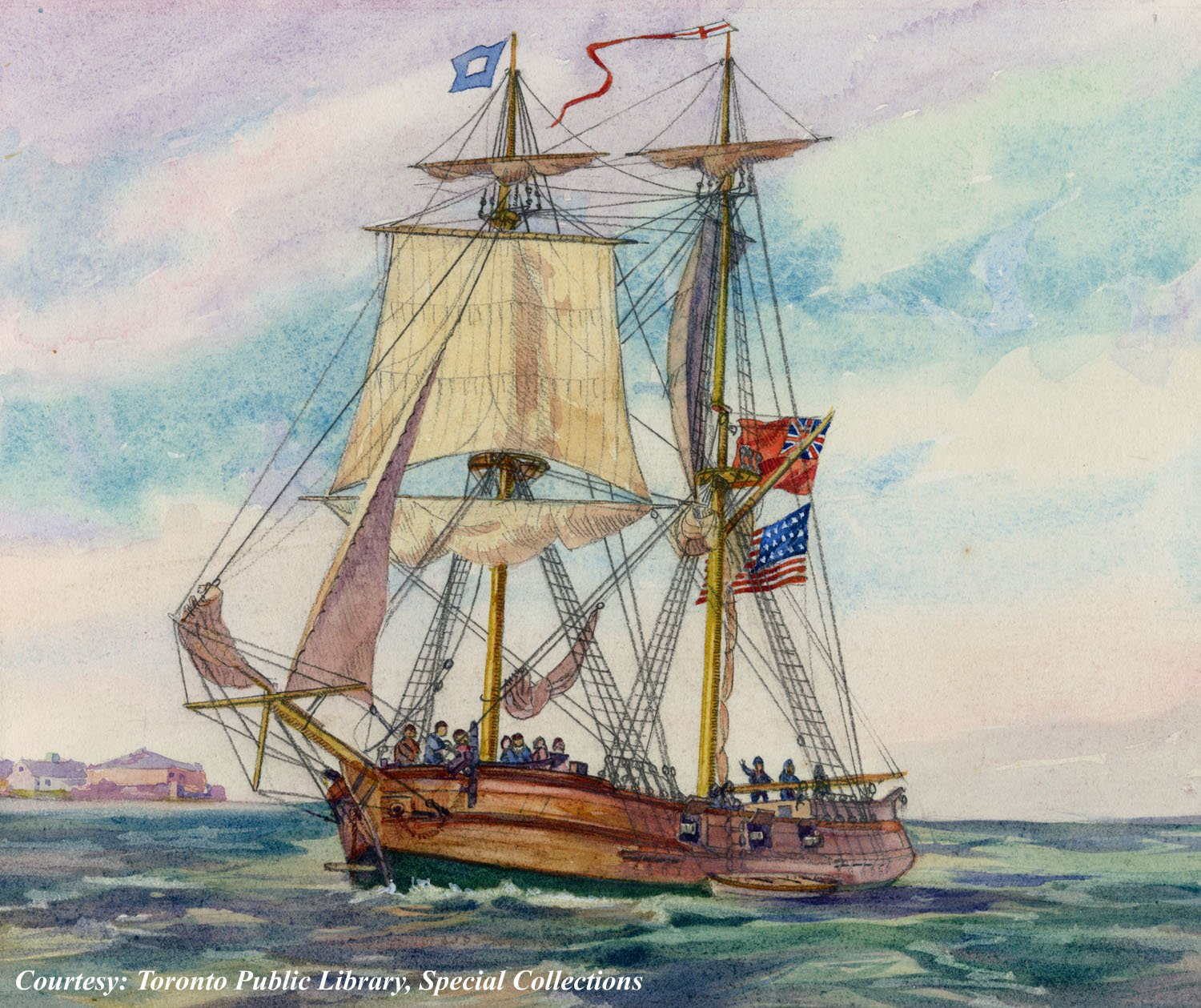 Two-masted brig USS Adams, built in 1799. She was captured by British forces at Detroit August 16, 1812, and renamed HMS Detroit. She was retaken in October 1812, and burnt that same day to avoid recapture. This picture shows the vessel weighing anchor for her last voyage under British colours. She was headed to Fort Erie. It is in pencil, with ruled border of pencil, on watercolour board; coloured with watercolour & touches of opaque white by Owen Staples. The original is 236 x 286 mm. Creator: Snider, Charles Henry Jefferey Date: 1913 circa Identifier: JRR 1153 Format: Picture - Drawing Rights: Public domain Courtesy: Toronto Public Library More information: (view details and larger image) You can order order a print or high-resolution copy. This image is available from the Toronto Public Library under the reference number JRR 1153 This tag does not indicate the copyright status of the attached work. A normal copyright tag is still required. See Commons:Licensing for more information. English | français | +/−